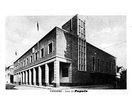 Casa del Fascia in Via Giovanni Plana, Voghera. By architect Carlo Mollino. Renamed Casa del Popolo on this postcard from the 1940s.